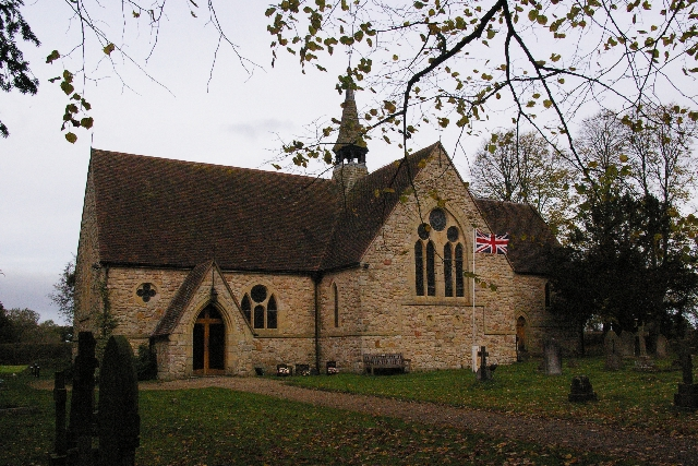 St. Oswald's Church, Worleston after the restoration The stonework has cleaned up remarkedly well